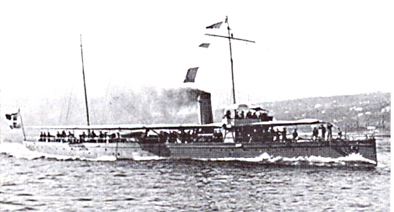 Austro-Hungarian gunboat (SMS Komet) - copyright expired